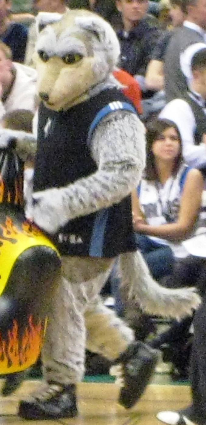 A photography, taken by Ed Kohler, of Minnesota Timberwolves' mascot: Crunch the Wolf.